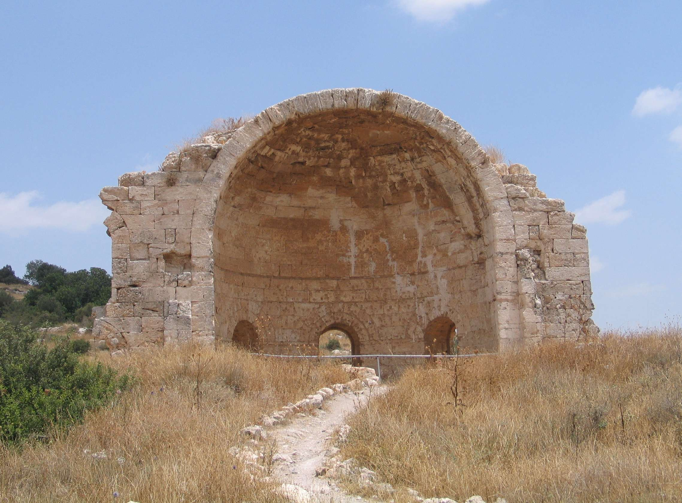 Beyt Govrin, Israel.